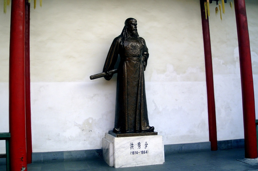 Statue of Hong Xiuquan in Nanjing